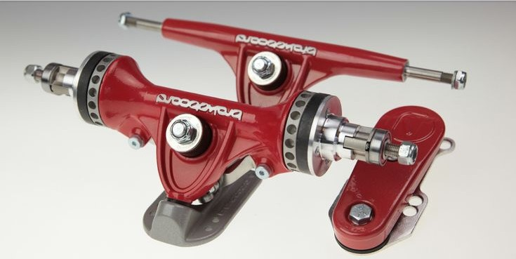 Brakeboard 3.1 introduced in April 2015